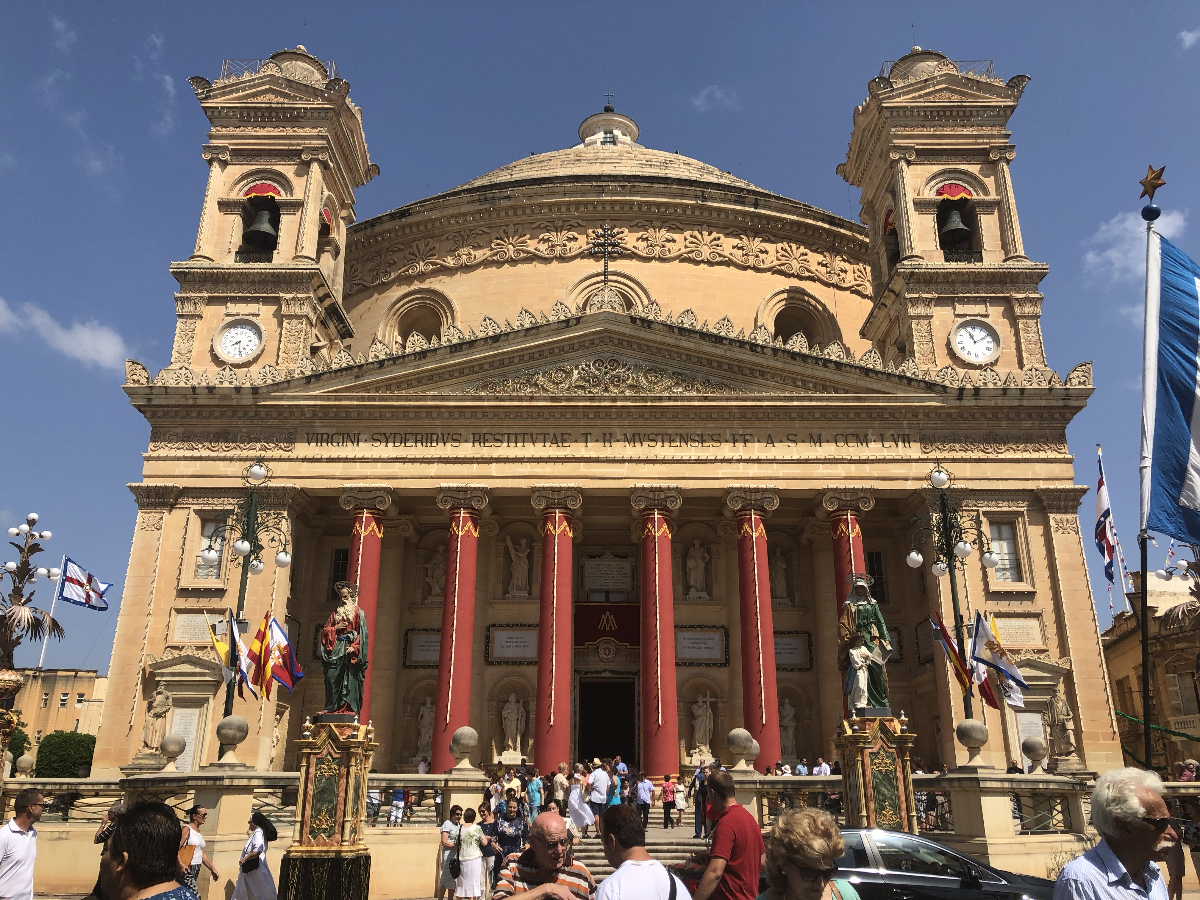 The Basilica of the Assumption of Our Lady in Mosta, Malta. The church is also known as Mosta Dome or as Mosta Rotunda